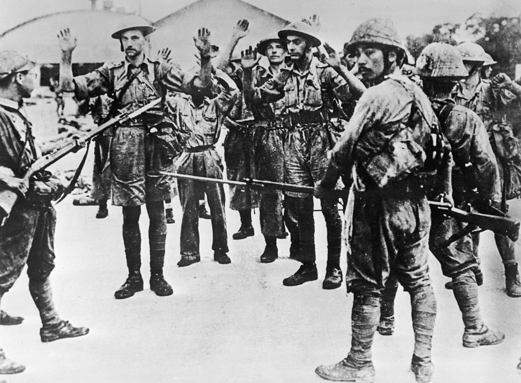 British soldiers taken prisoner by the Japanese in Singapore, during World War II.